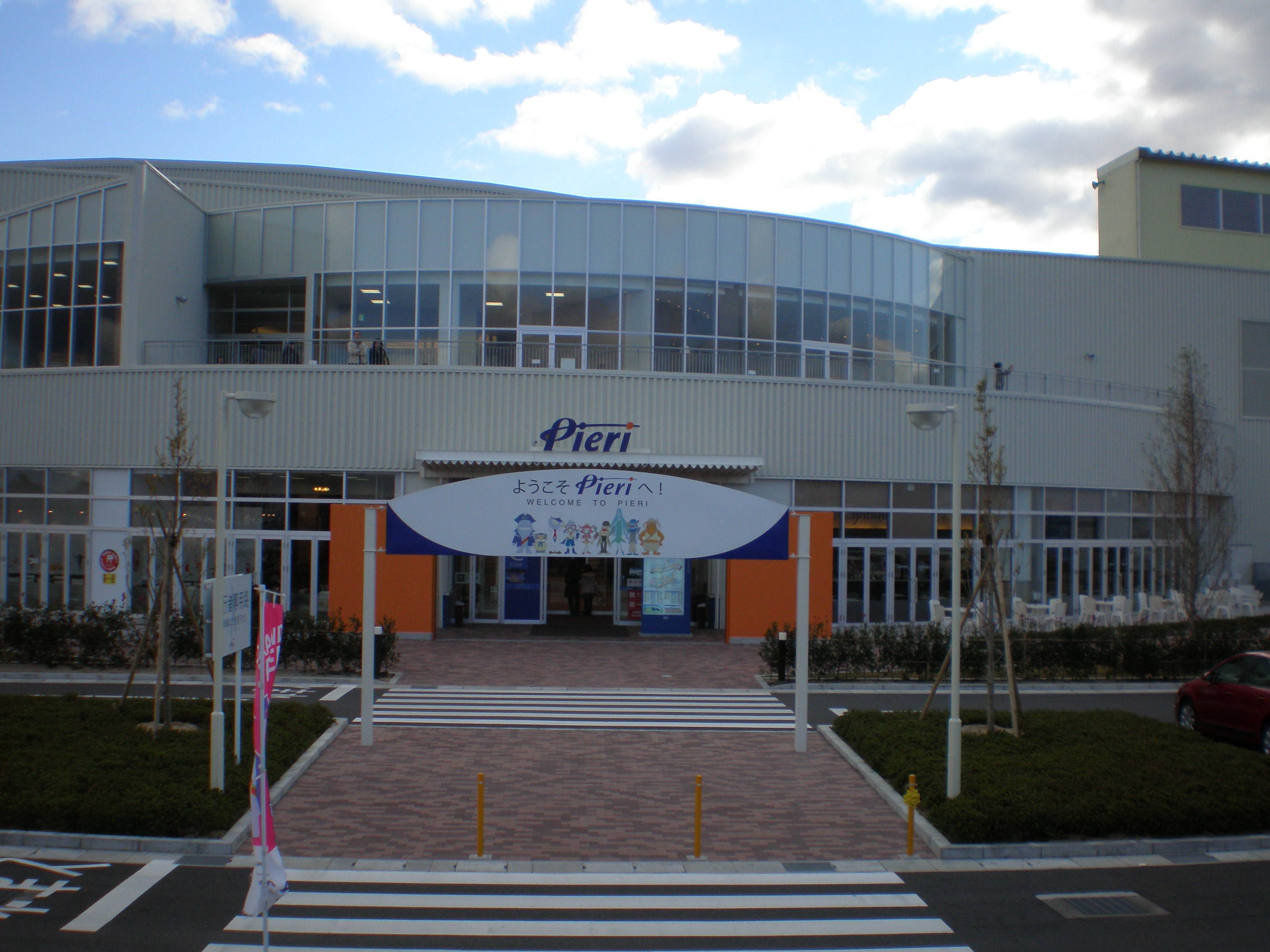 Pieri Moriyama entrance